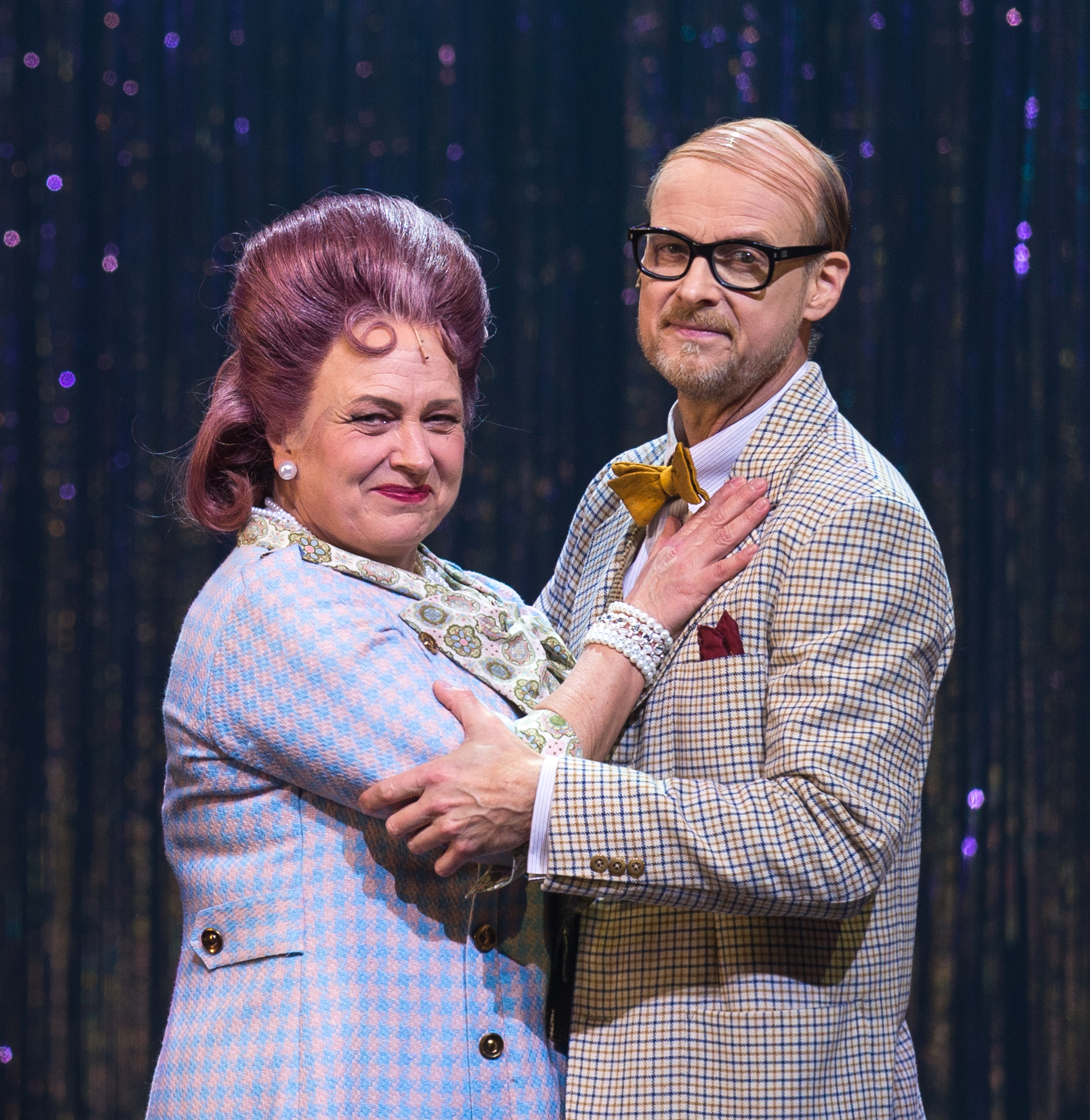 Sussie Eriksson och Jan Mybrand i musikalen "Häxorna i Eastwick" på Cirkus i Stockholm 2019. Med Peter Jöback, Linda Olsson, Kayo Shekoni, Vanna Rosenberg, Sussie Eriksson, Jan Mybrand med flera.